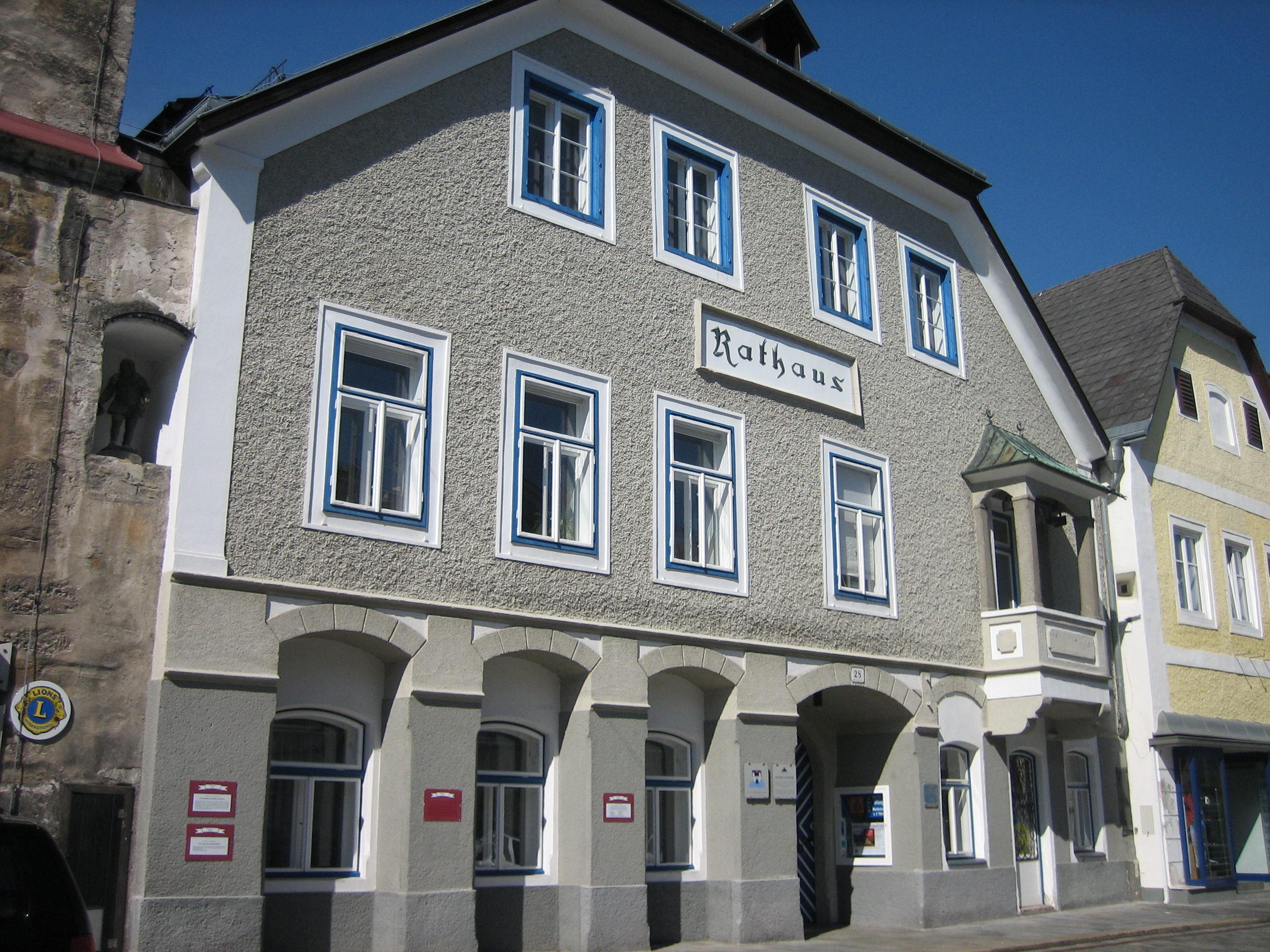 Austria, Lower Austria, Waidhofen an der Ybbs: Townhall